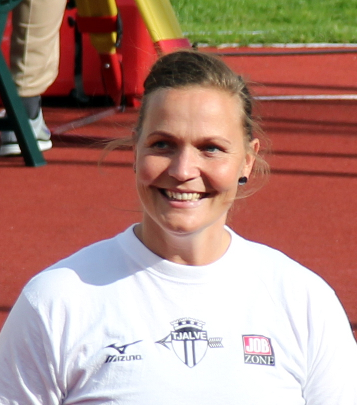 Grethe Etholm at 2012 Bislett Games